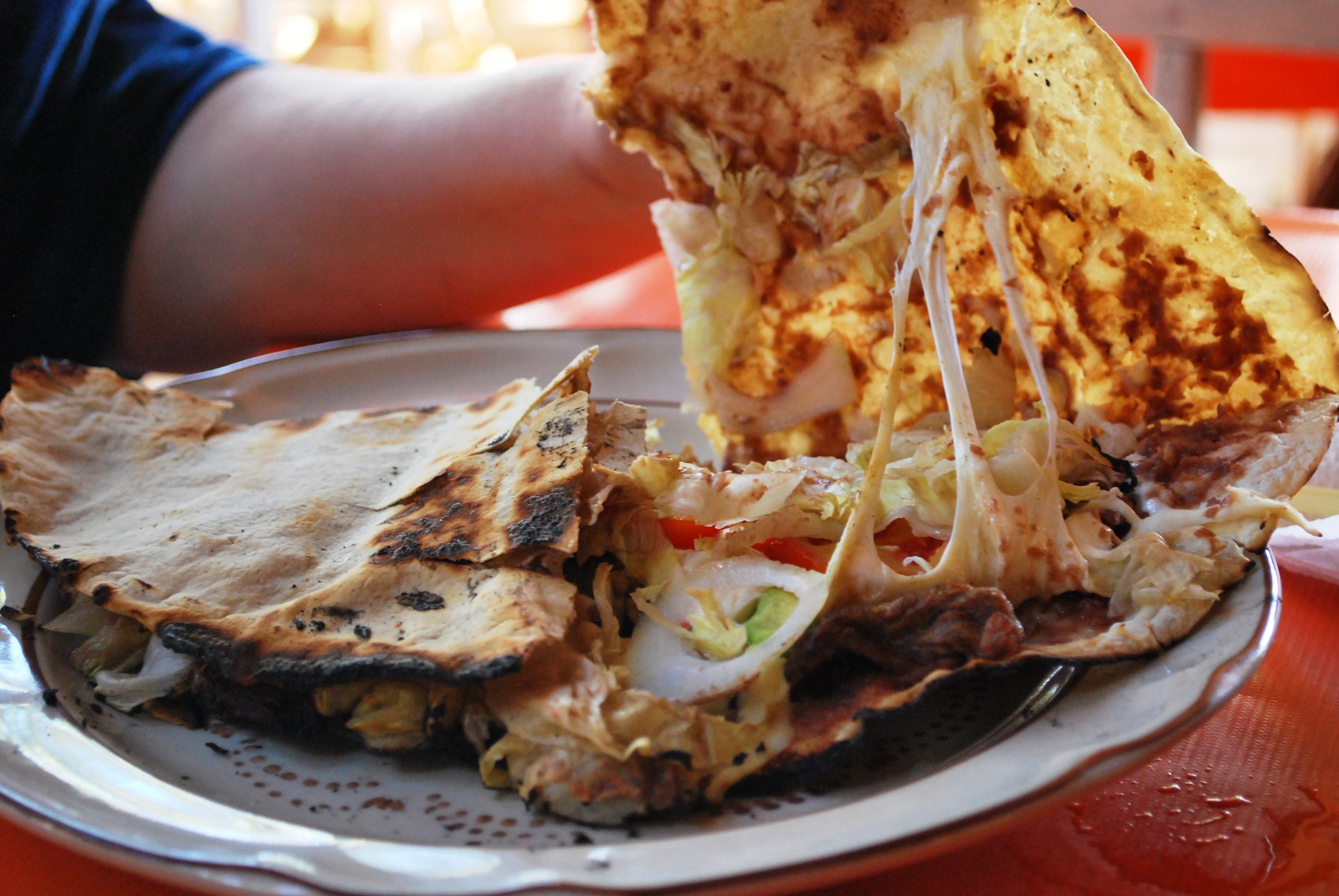 Tlayuda at a restaurant in Mazunta, Tonameca, Oaxaca, Mexico. Opened to show the ingredients inside